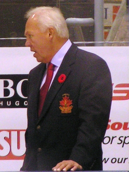 Yvan Cournoyer coached Montreal Canadiens Alumni at the Legends Clasic in Toronto